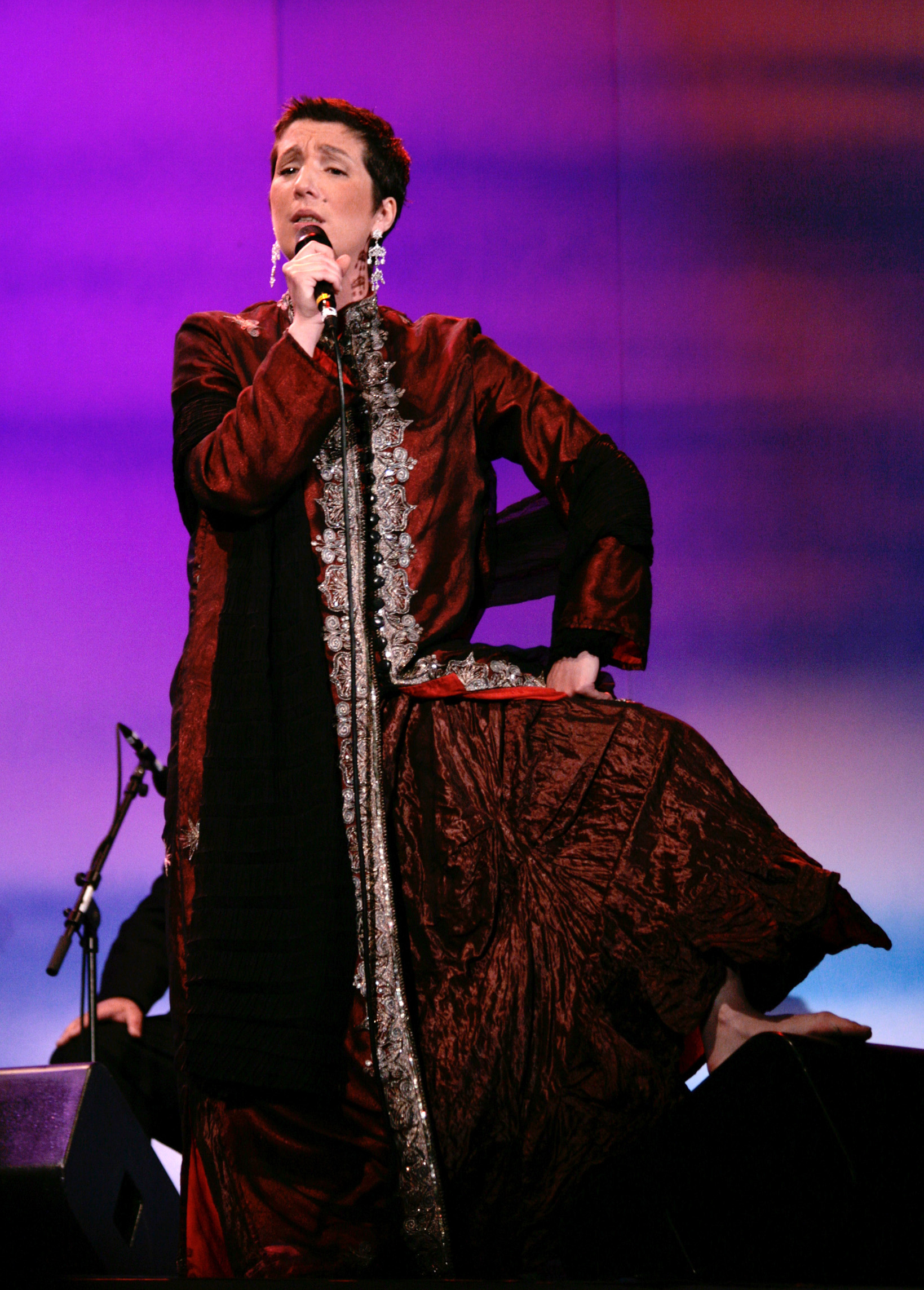 Dulce Pontes; concert at the opening of the Vienna Festival 2009